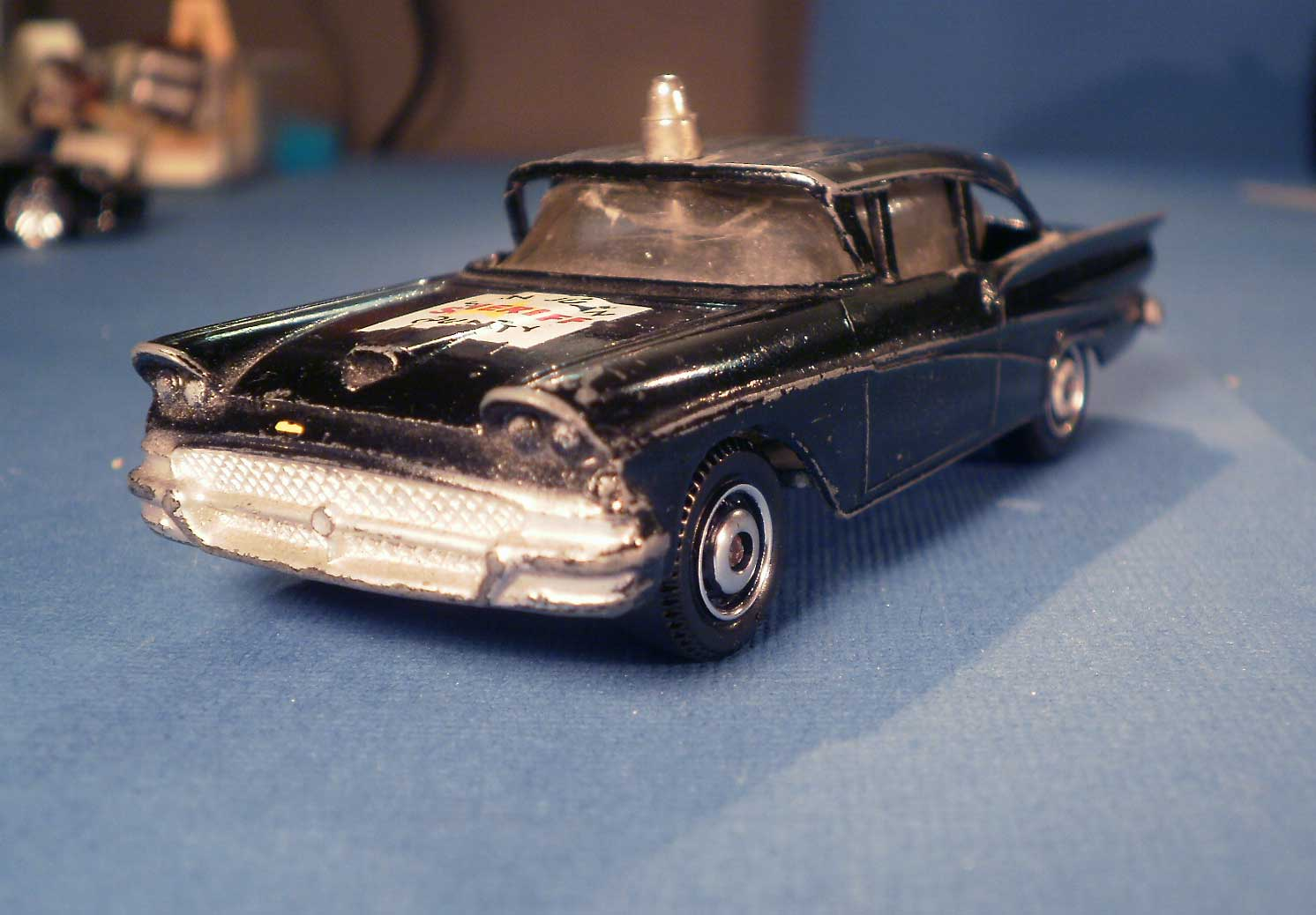 Hubley Realtoys 1958 Ford. Front view.